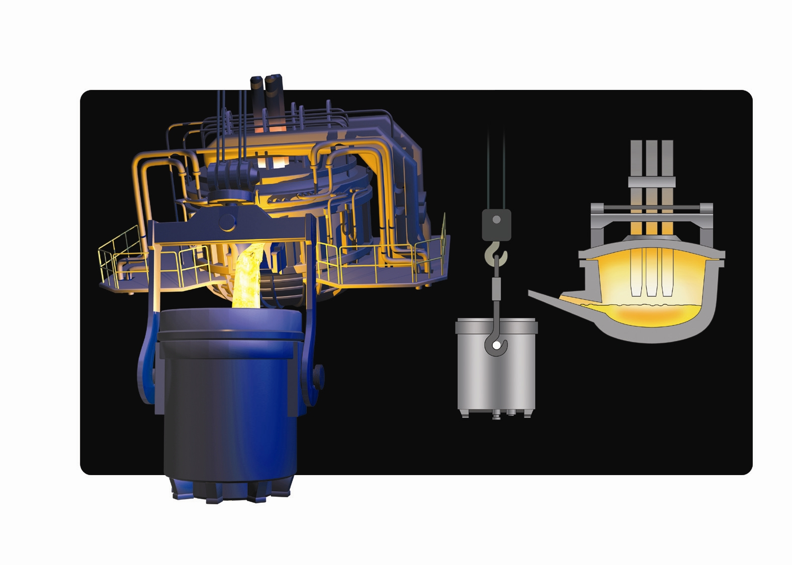 Melting of metal scrap to make tool steel in an Elecric Arc Furnace, uddeholms AB, Sweden